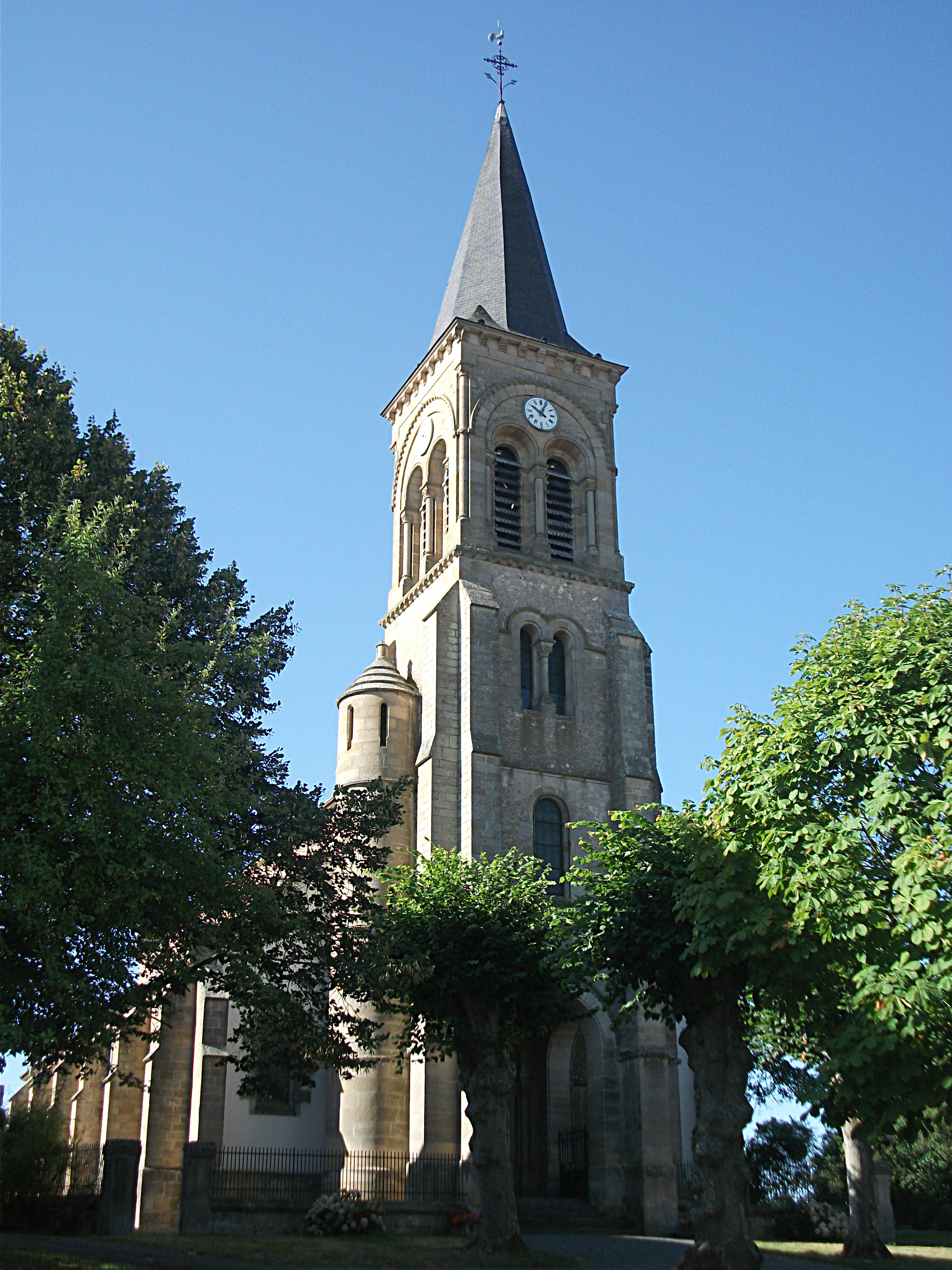 Church (Saint-Barnabé) in Saint-Aubin-le-Monial, Allier, Auvergne-Rhône-Alpes, France. [16689]